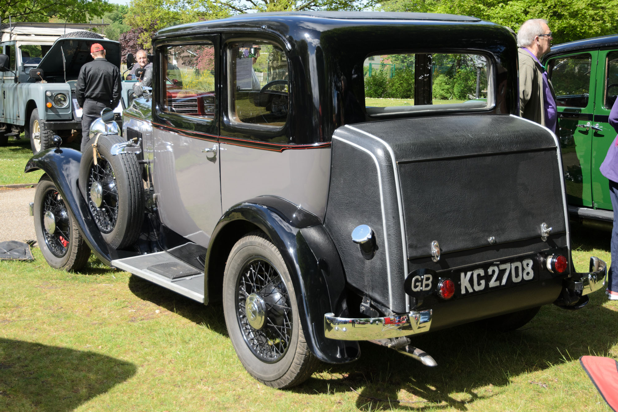 Vauxhall Cadet 2-door Coupe (1933) Astley Park (Chorley) Classic Car Show 14/05/2017